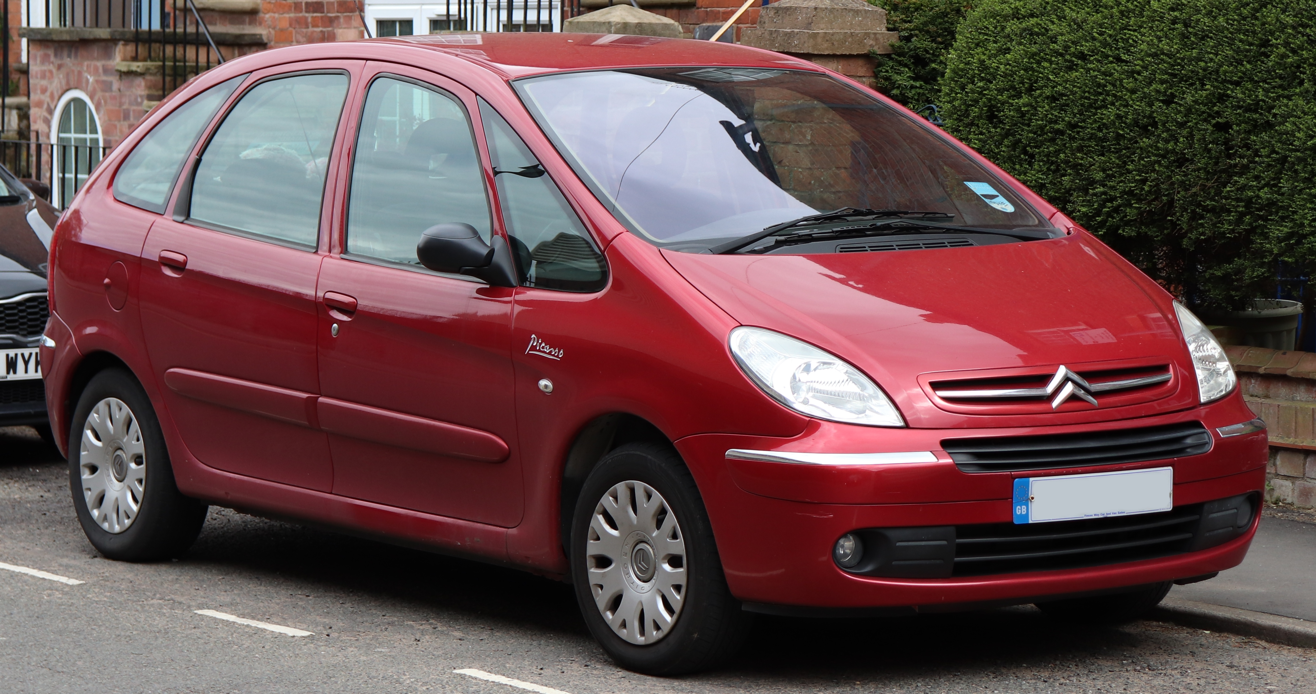 2005 Citroen Xsara Picasso Desire 2HDi facelift 2.0 Front Taken in Warwick